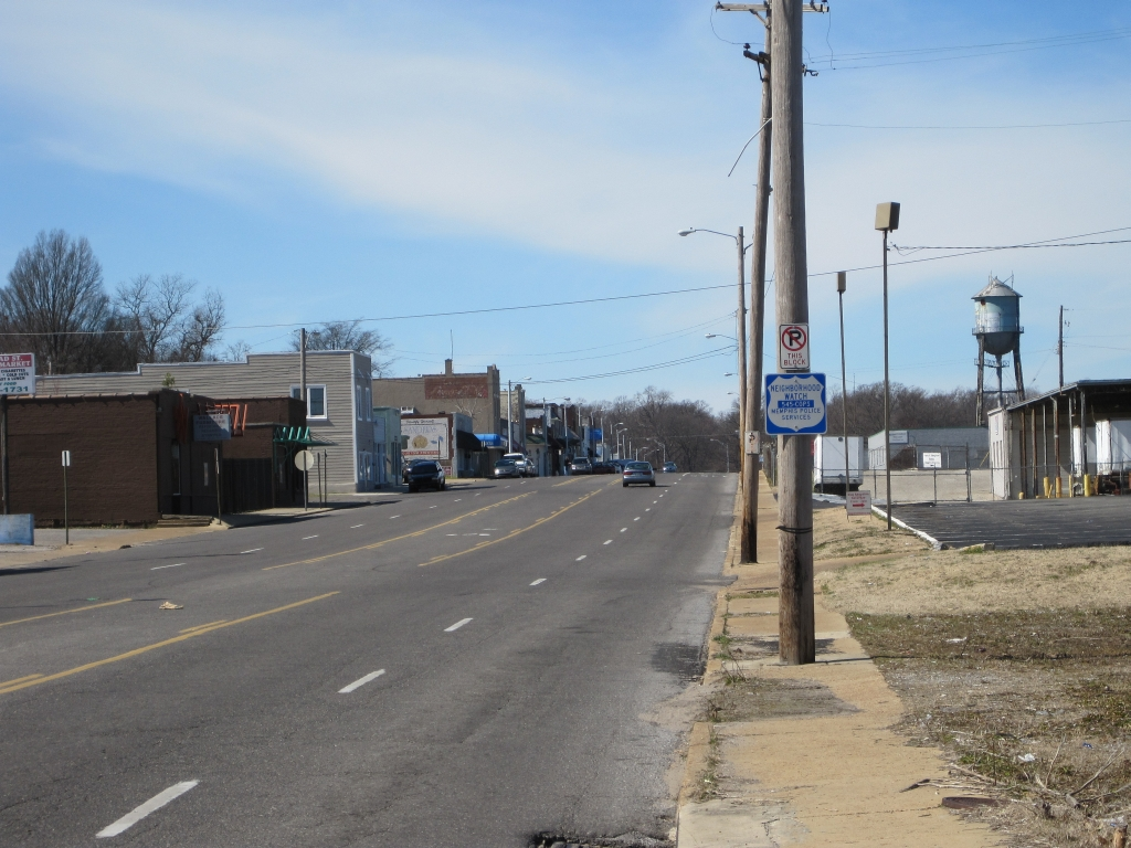 Broad Avenue in the Binghampton neighborhood of Memphis, Tennessee.